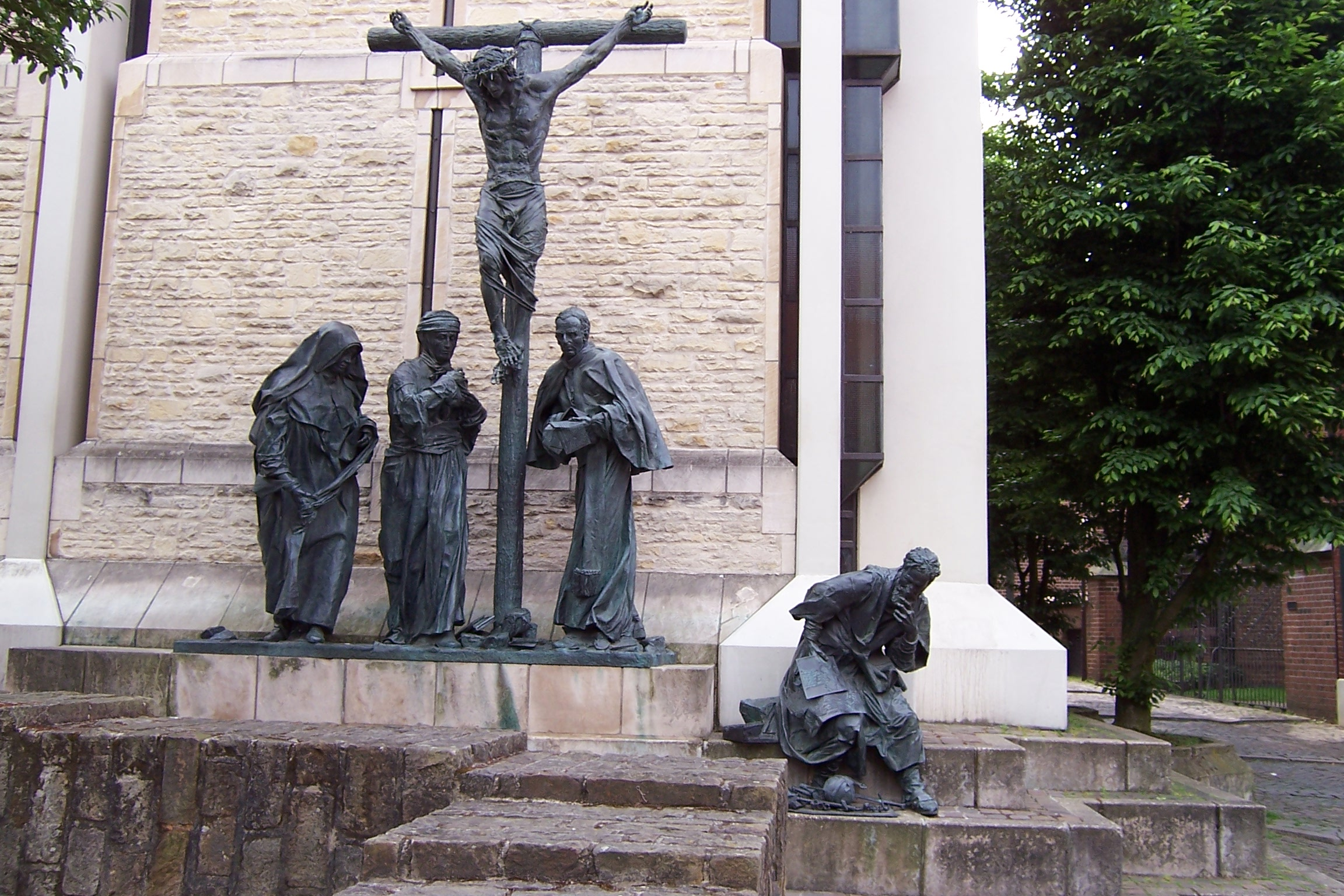 cross in cathedral close, Münster